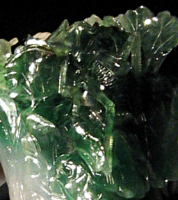 The insect which was engraved on Jadeite Cabbage.